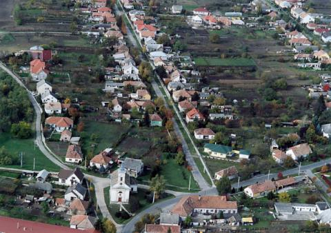 Börcs, Hungary, aerial photography